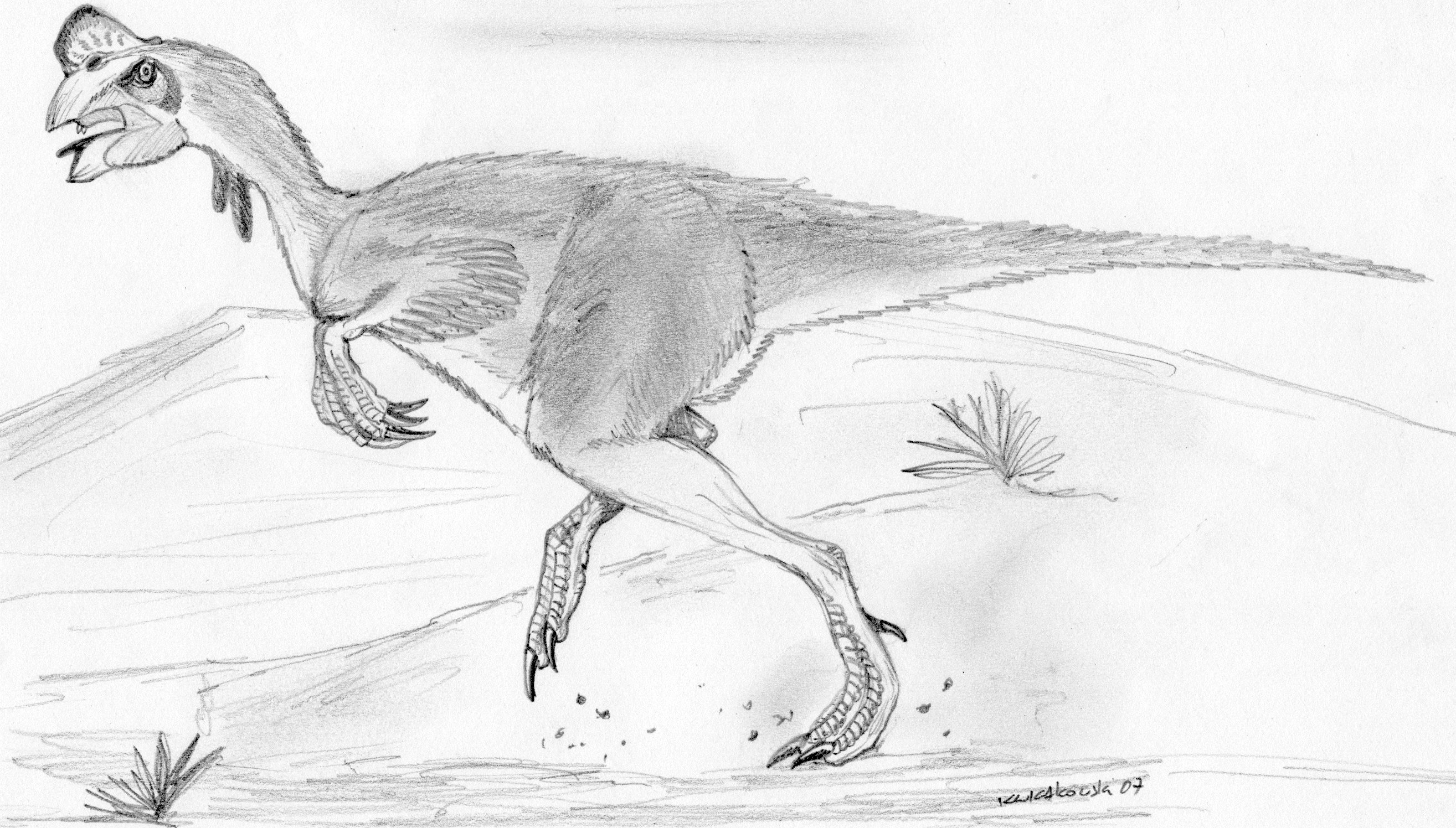 (Oviraptor philoceratops)